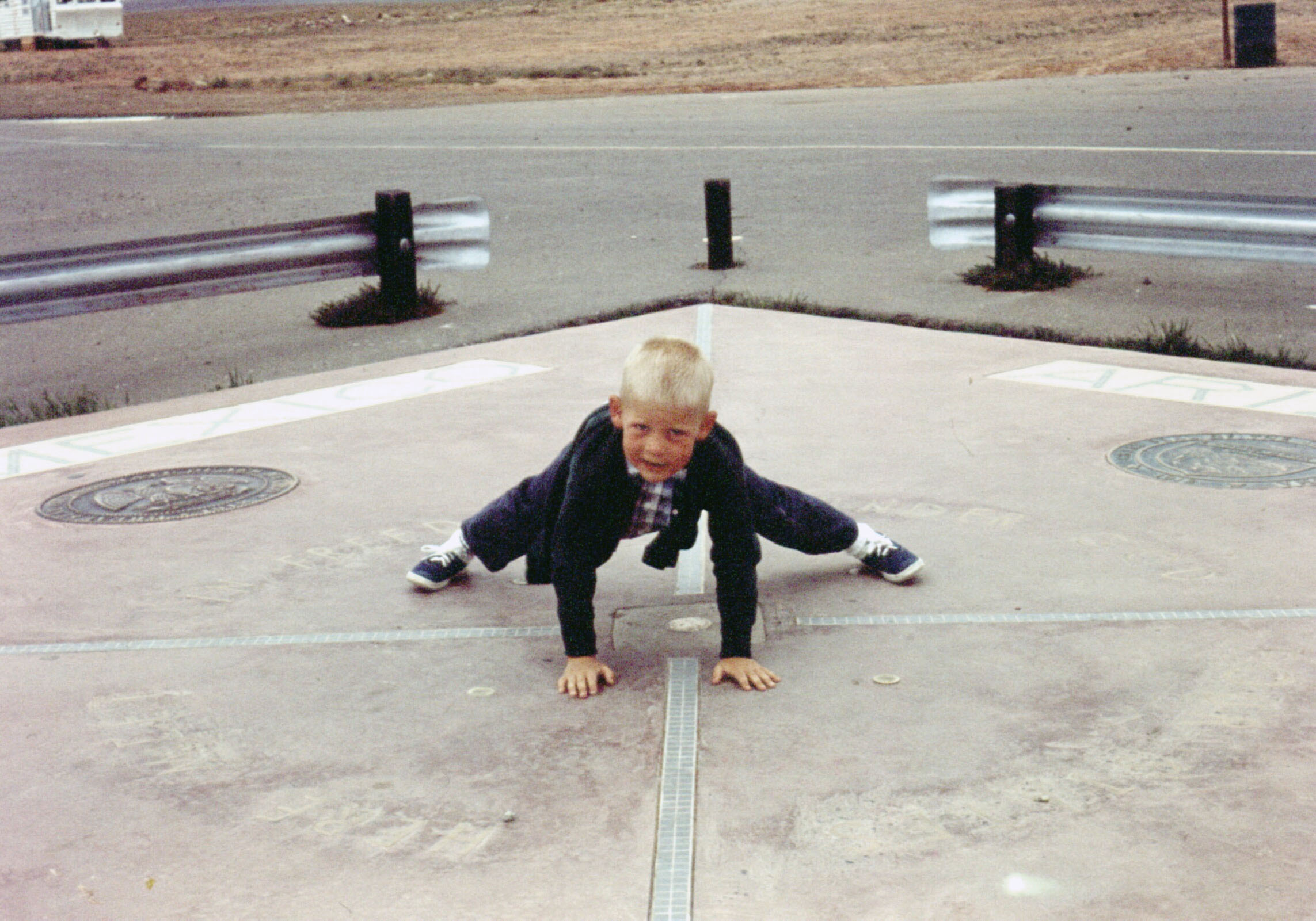 A young boy at the Four Corners Monument in the United States in 1965.